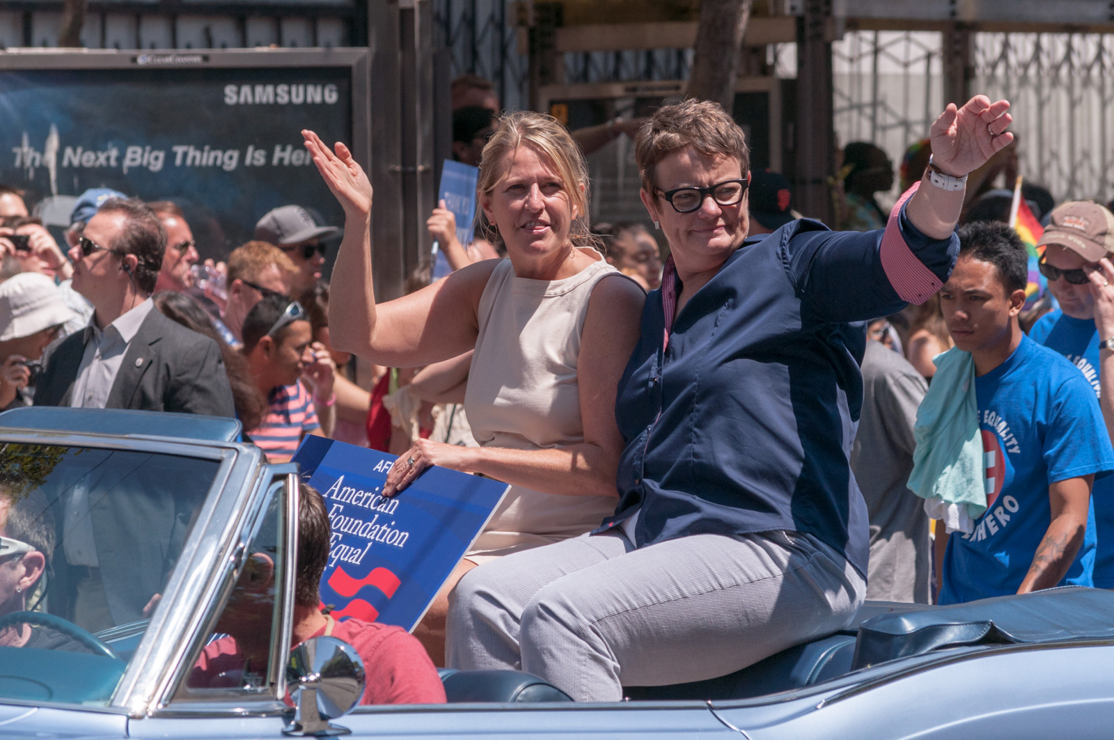 I am visiting San Francisco for the Pride weekend - one that turned out to be the most historic of them all, thanks to the Supreme Court rulings that legal same-sex marriages cannot be denied federal benefits, and that Proposition 8, which had banned same-sex marriages in California in late 2008, is dead on a legal technicality. In fact, California's same-sex marriages resumed two days prior, and this couple, Kristin Perry and Sandra Stier, was the first to tie the knot in San Francisco. They had also been the plaintiffs in the federal case (Perry v. Schwarzenegger - later became Hollingsworth v. Perry when Prop 8 supporters appealed the ruling), that resulted in Proposition 8 being voided. Congratulations!